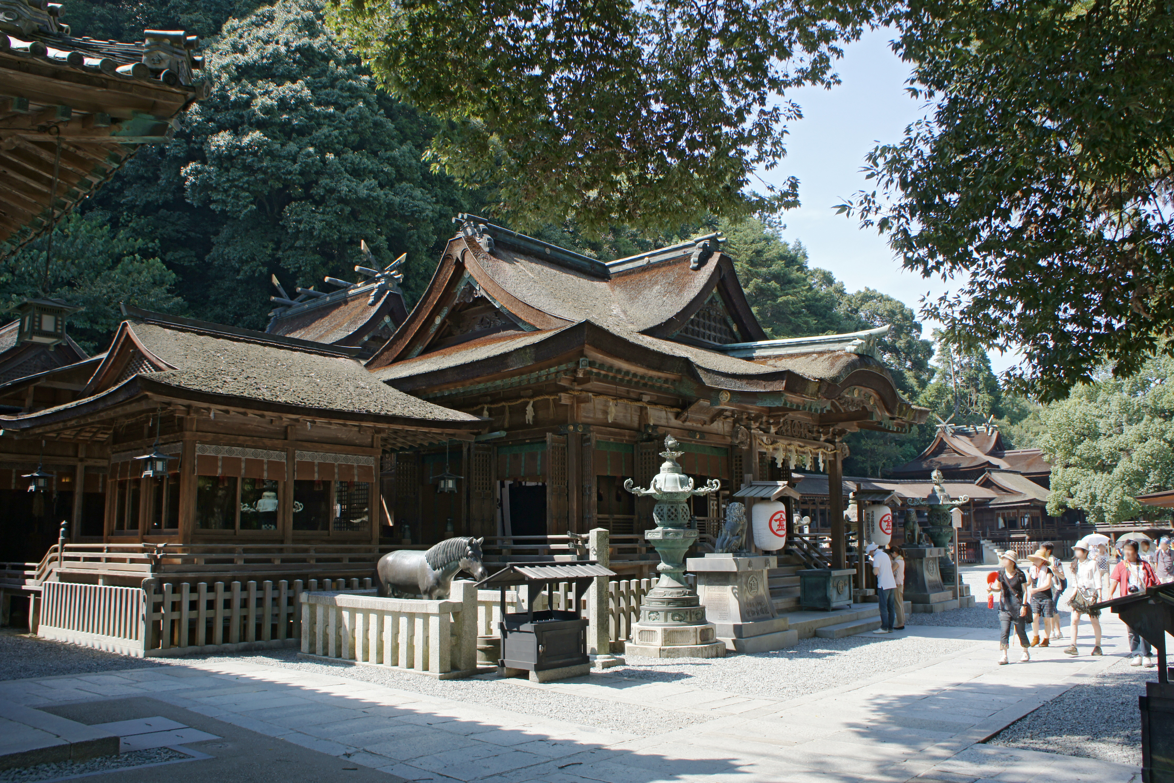 Kotohira Gu in Kotohira, Kagawa prefecture, Japan.